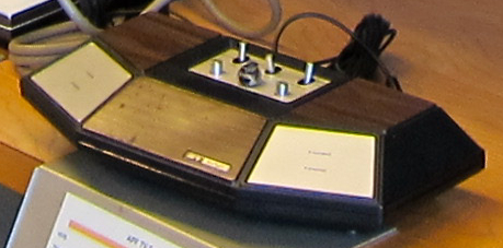 APF TV Fun (model 442). The detachable paddle controllers are not shown.